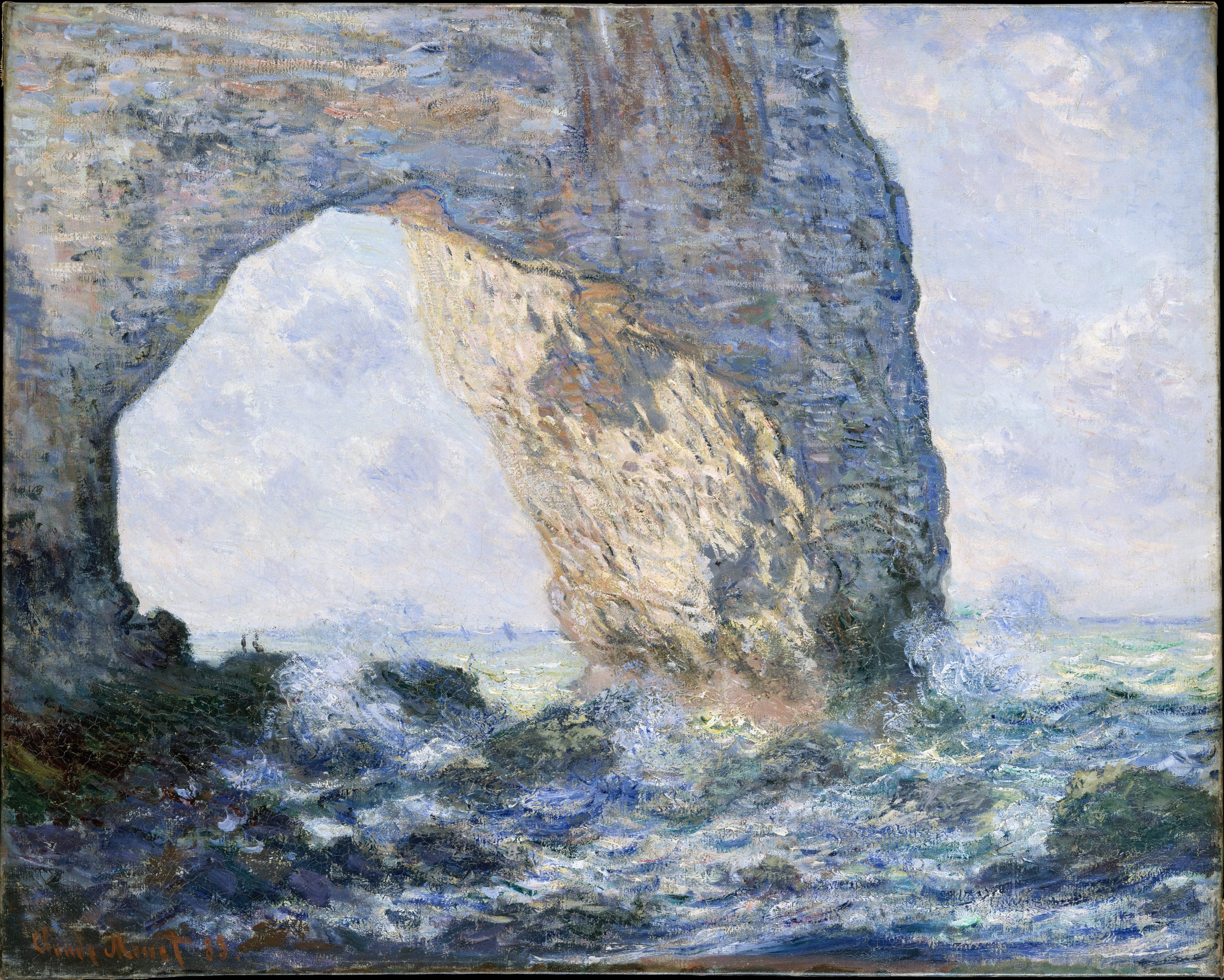 Monet spent most of February 1883 at Étretat, a fishing village and resort on the Normandy coast. He painted eighteen views of the beach and the three extraordinary rock formations in the area: the "Porte d'Aval," the "Porte d'Amont," and the "Manneporte."